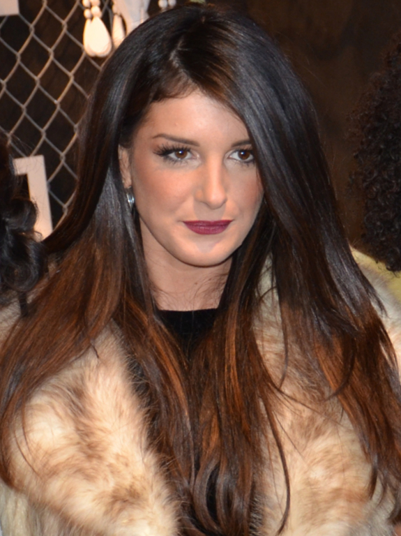 Shenae Grimes at the New York Fashion Week February 2012 Street Style.